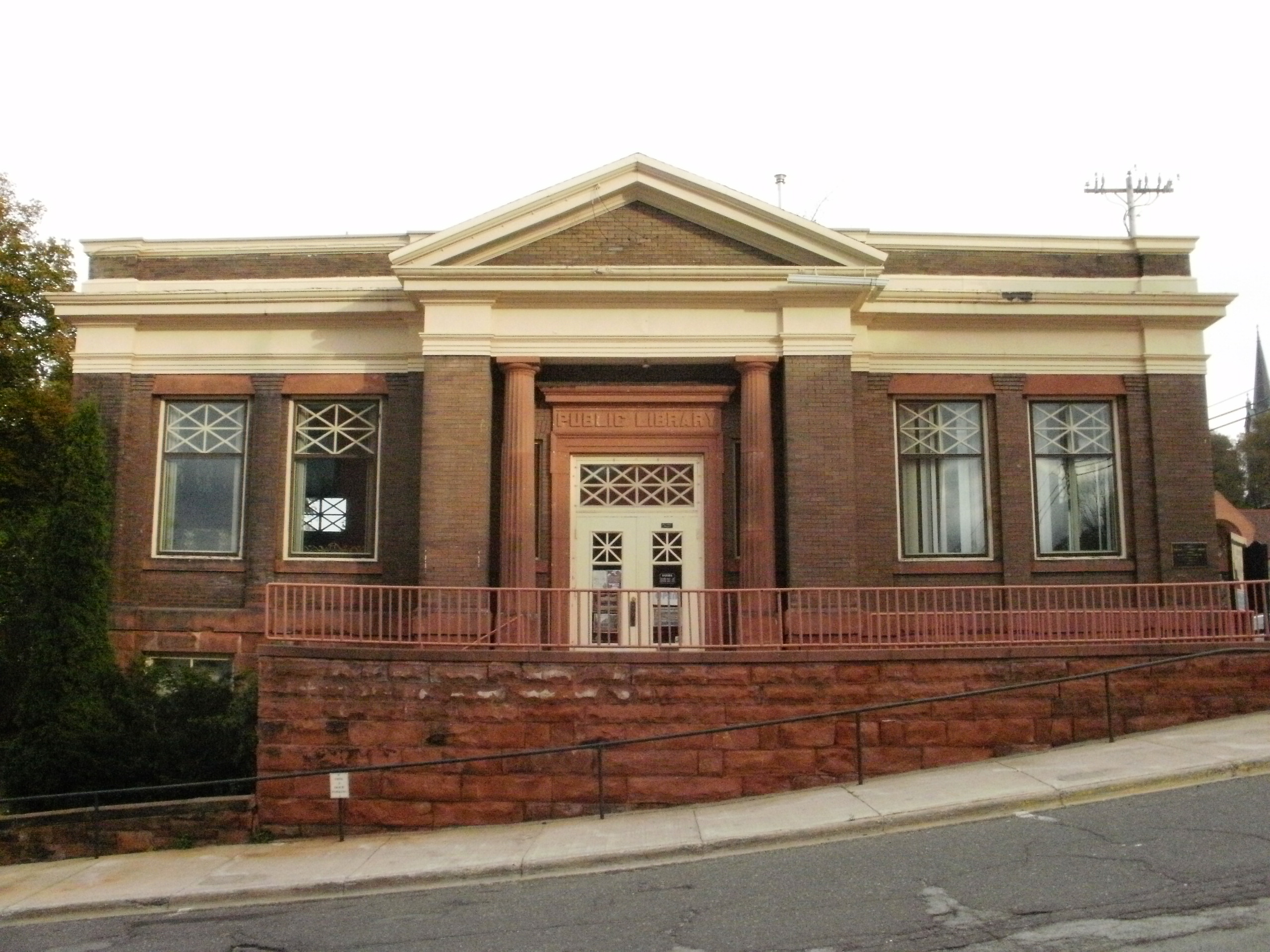 The Carnegie Museum in Houghton, MI and former public library